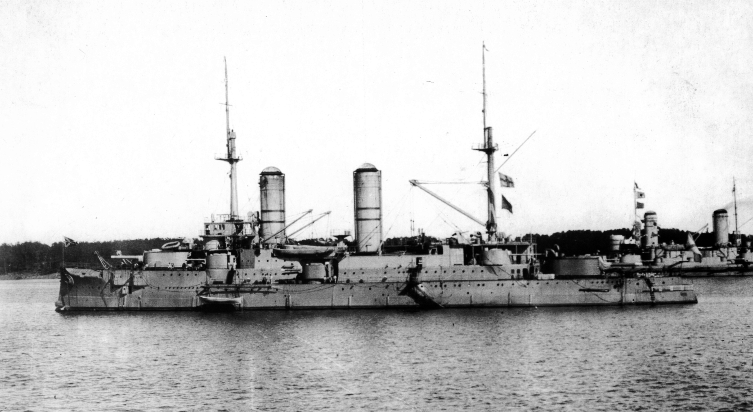 Battleship «Slava» of the Russian Republic, that is in Finnish skerries, goes into action to Moonsund, July 1917. There is also battleship «Andrei Pervozvannyi» behind «Slava».